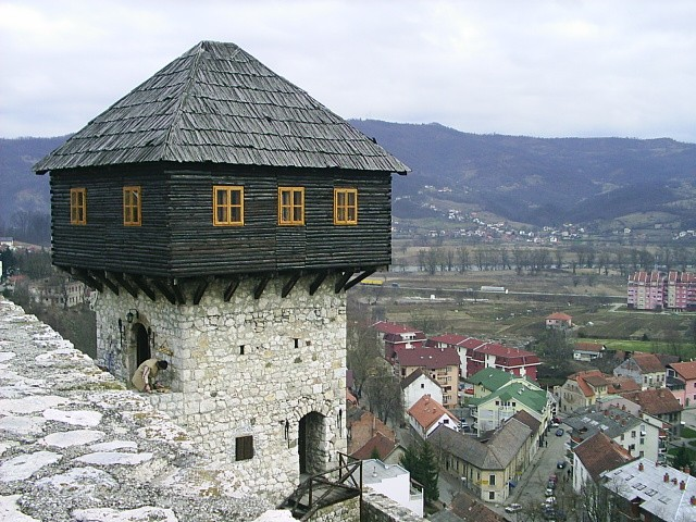 Doboj fortress with a view of the city itself, BiH